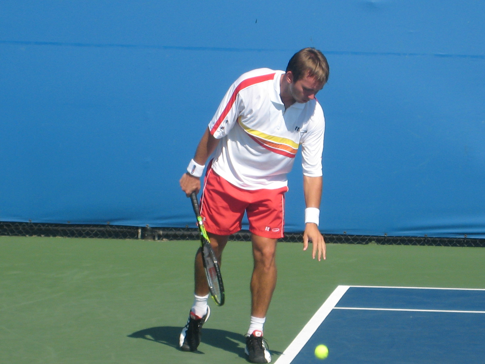 Ivo Minar at the 2008 Pilot Pen Tennis tournament.